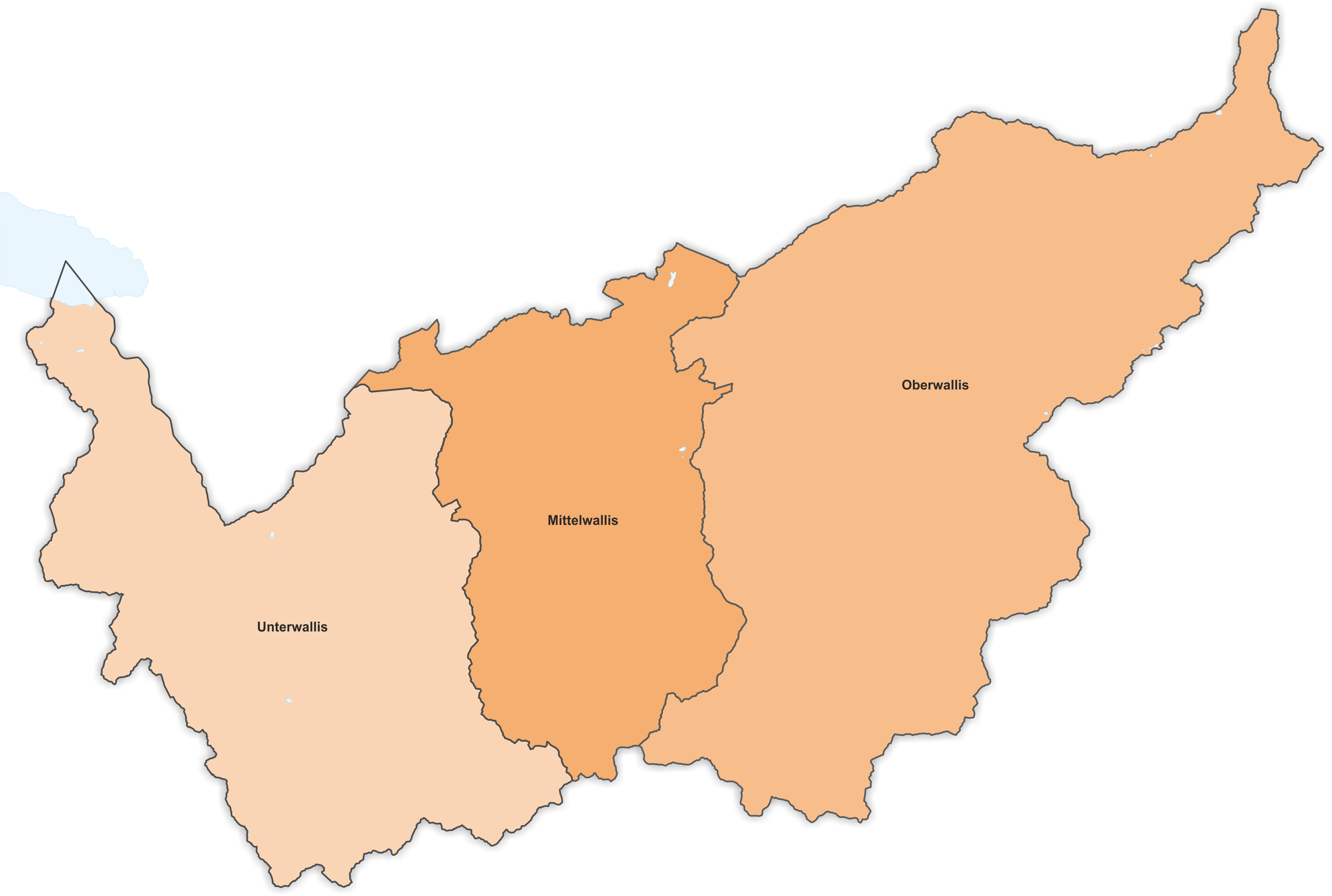 National council constituencies in the canton of Valais from 1851 to 1860